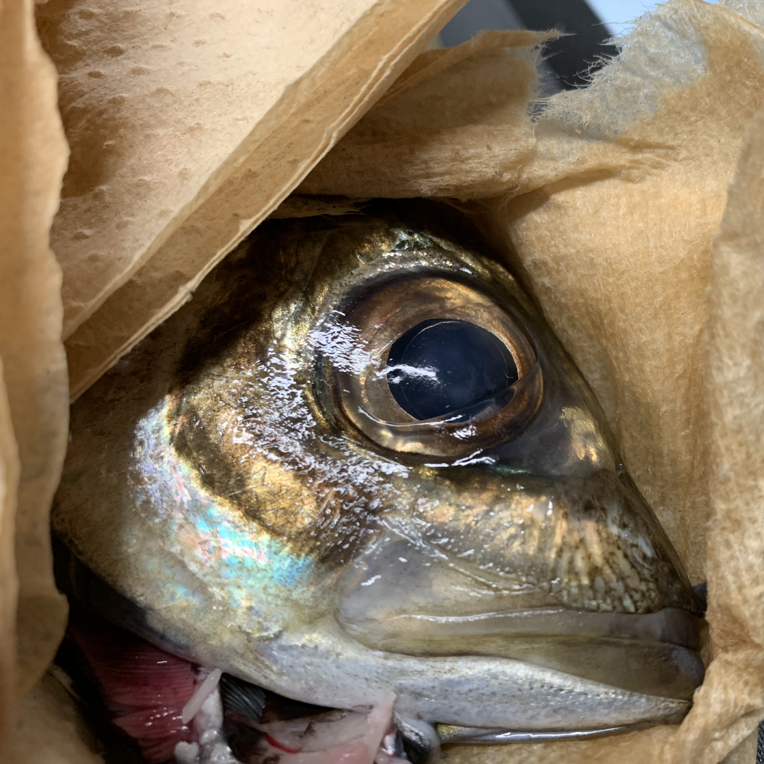 Trachurus japonicus, Note the adipose eyelid